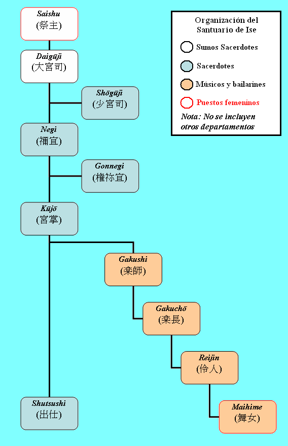 Hierarchy of Ise Shrine, Japan